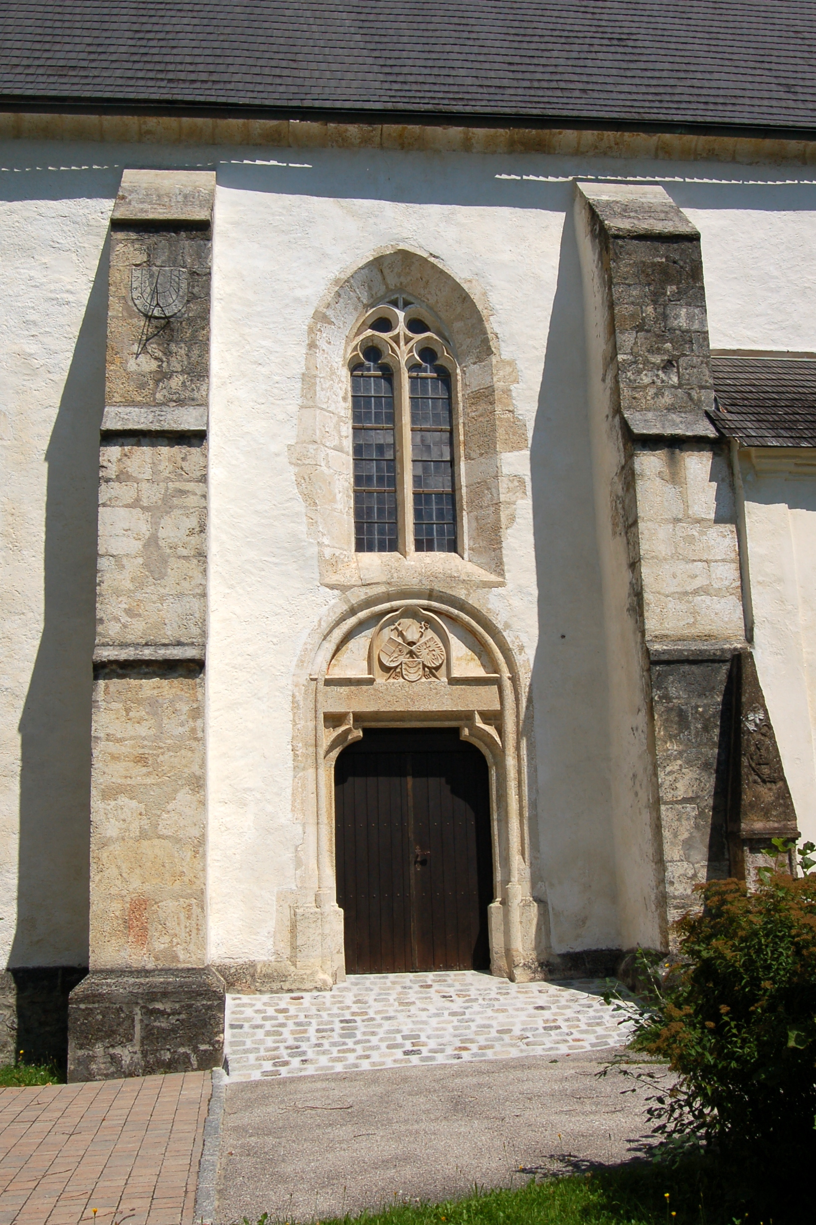 Detail of southern wall of St. Lambert parish church in Bromberg, Lower Austria